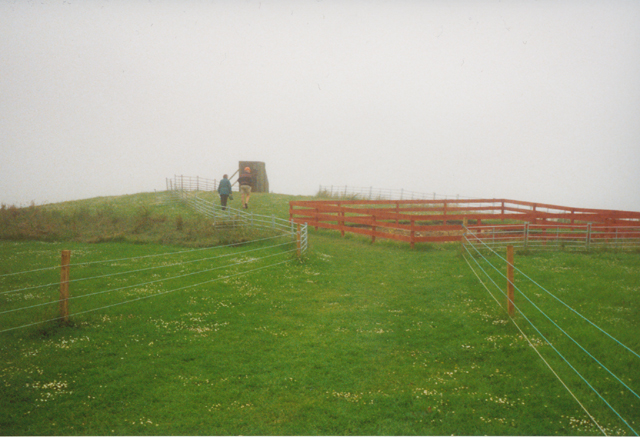 Mine Howe. The entrance to the Underground Chamber made famous by Channel 4's Time Team programme can be seen in this photo taken shortly after the Time Team's visit.